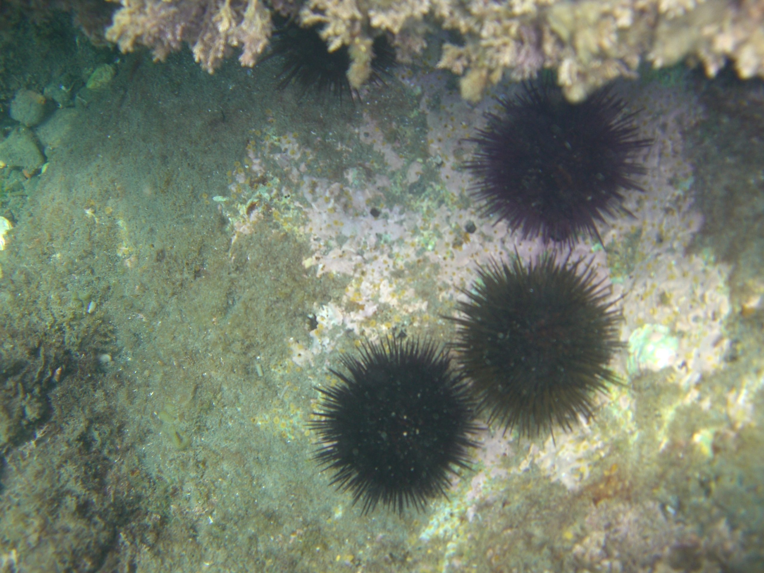 Diving foto safari at Baños del Carmen, City of Málaga. Safari fotográfico submarino en los Baños del Carmen, Ciudad de Málaga.